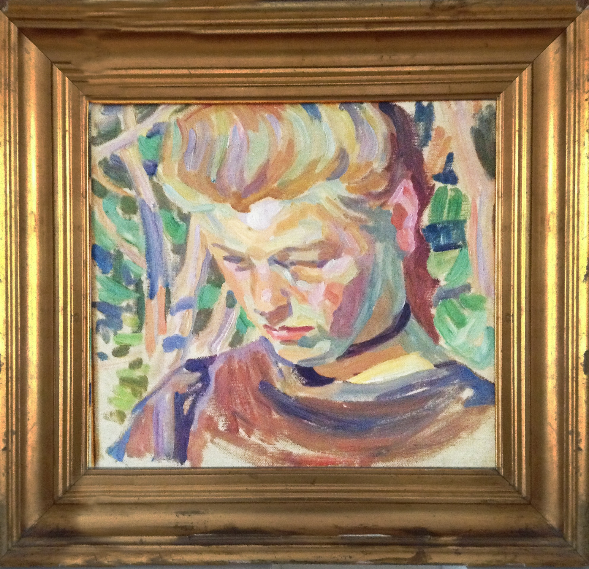 Peter Hansen: Portrætstudie til ”Nøddeplukkere”. 1910.